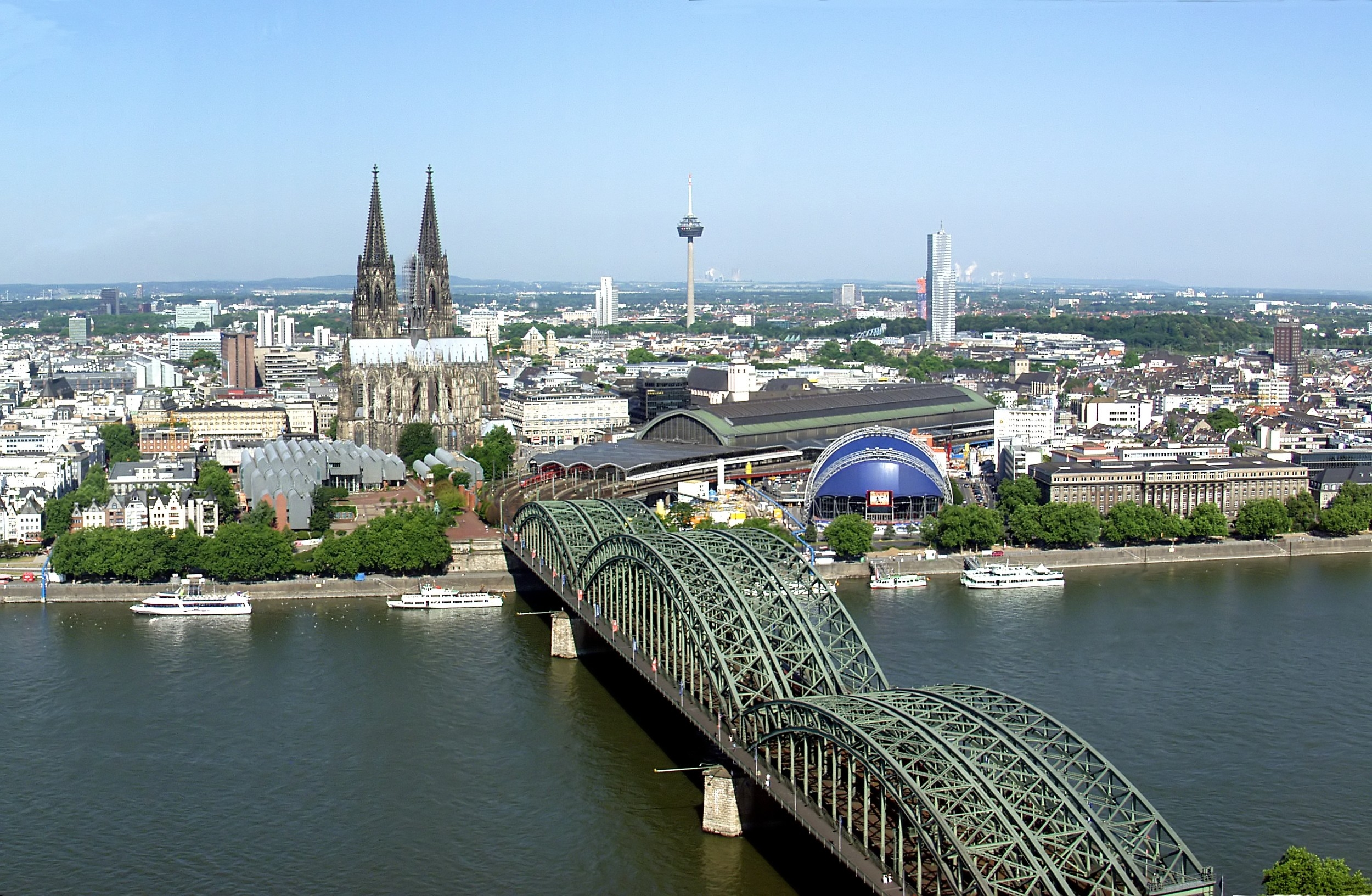 View over the centre of Cologne. Left to right: Old Town, Philharmonic, Museum Ludwig, Cologne Cathedral, Bridge "Hohenzollernbrücke", Main Station, Musical Dome. Background: television tower "Colononius" and scyscraper "KölnTurm" at the MediaPark